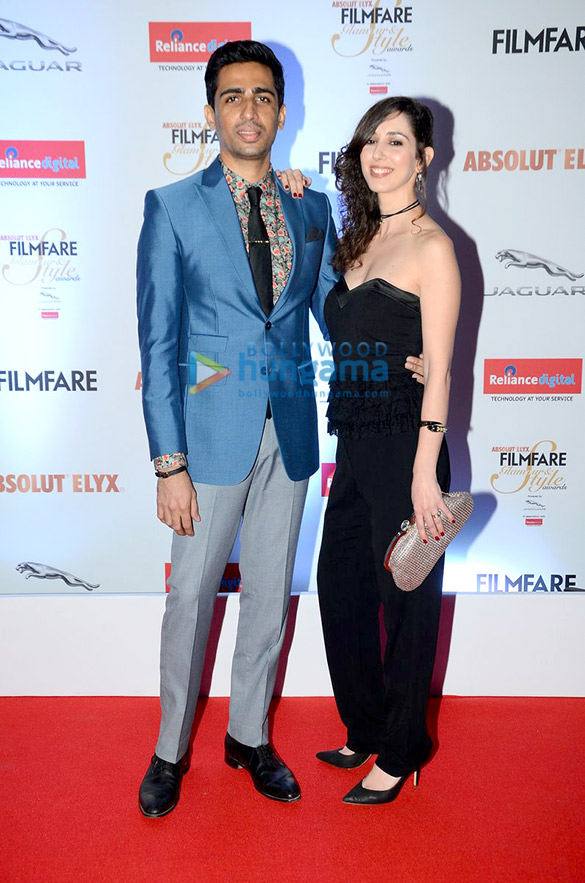 Devaiya gracing ‘Filmfare Glamour & Style Awards 2016’